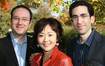 The New Oberlin Trio